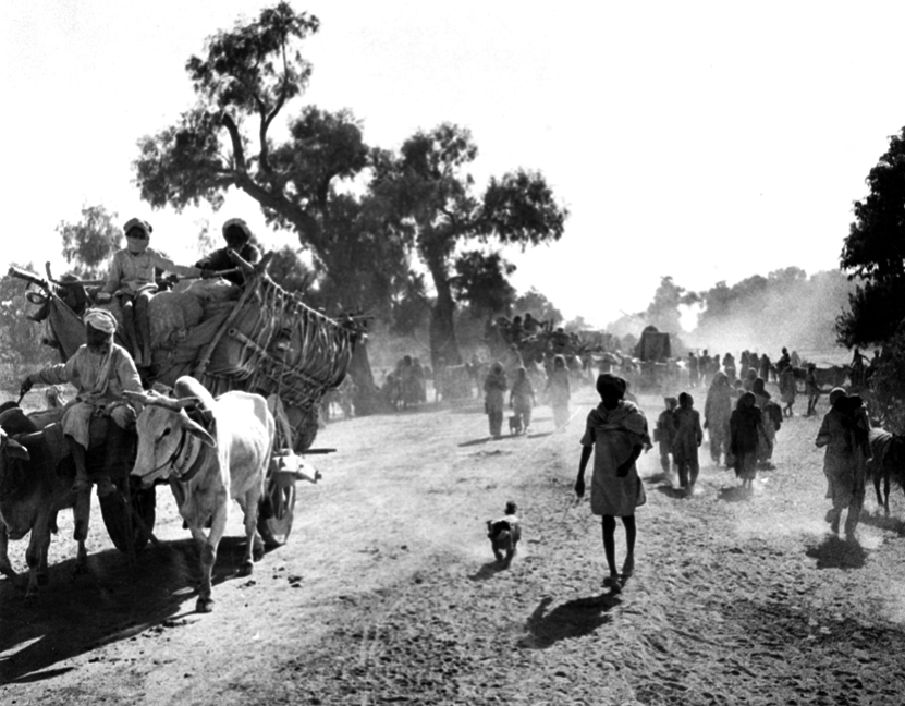 APO/February,54,A31dFrom Balloki Head Kasur Carts, cattles, donkeys, dogs, men, women, boys, girls, babies, bicycles, baggage – ail in constant move under pall of dust. Photo Number:-37160